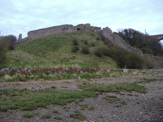 Berwick Castle Founded by David I in the twelfth century, this once mighty fortress changed hands several times during the prolonged and often bloody fighting between Scotland and England in the medieval period. Warfare, neglect and ultimately, the construction of the station and the railway bridge, reduced the castle to the ruin we see today. The fragment of the castle seen in the picture is known as "the White Wall".